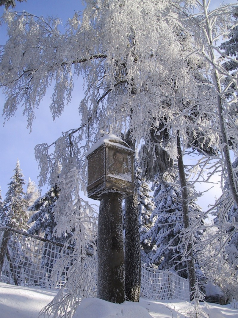 stara prazska cesta in Lusatian mountains (Luzicke hory), czech republic